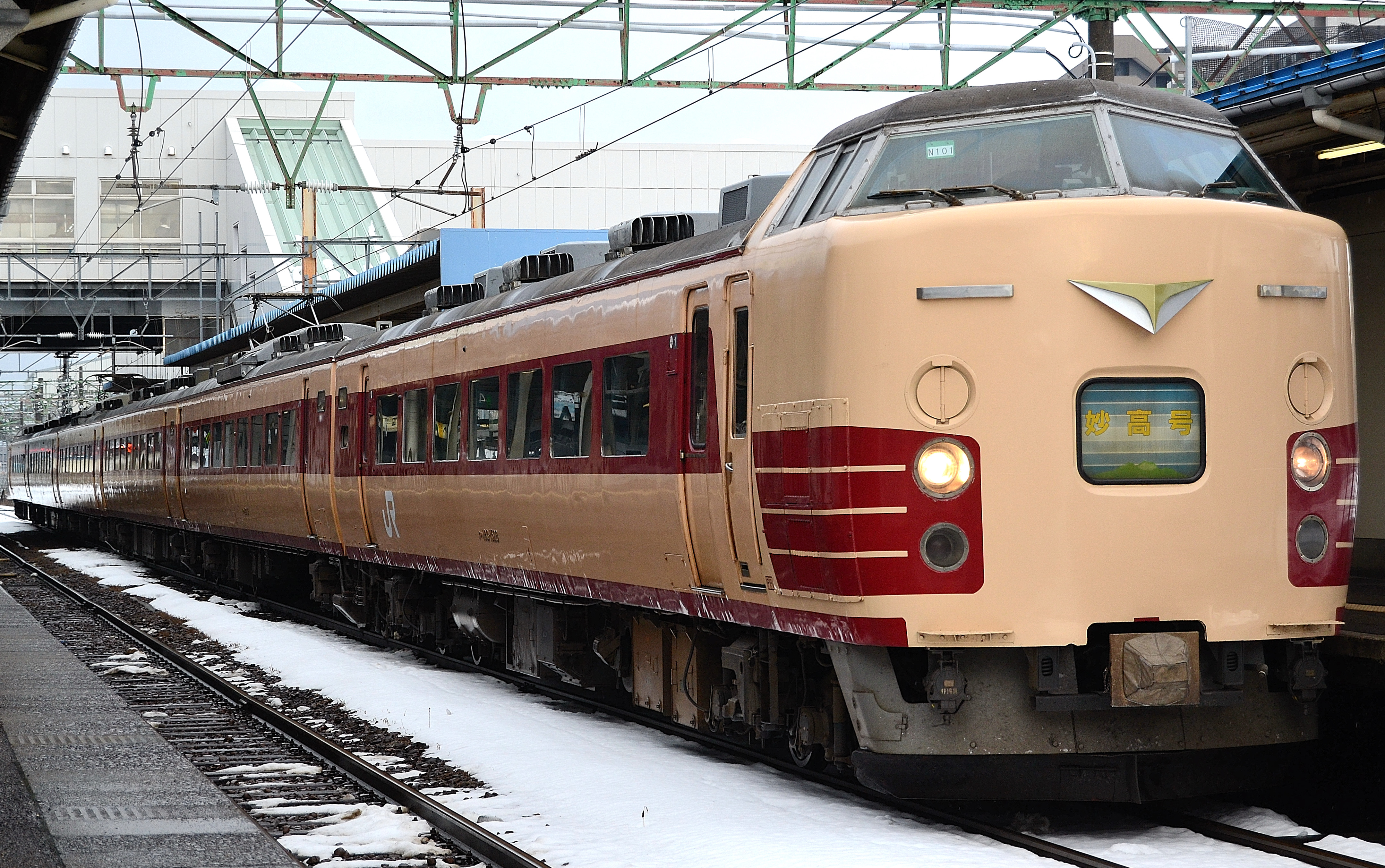 JR East 189 series 6-car EMU set N101 at Naoetsu Station on a Myoko rapid service